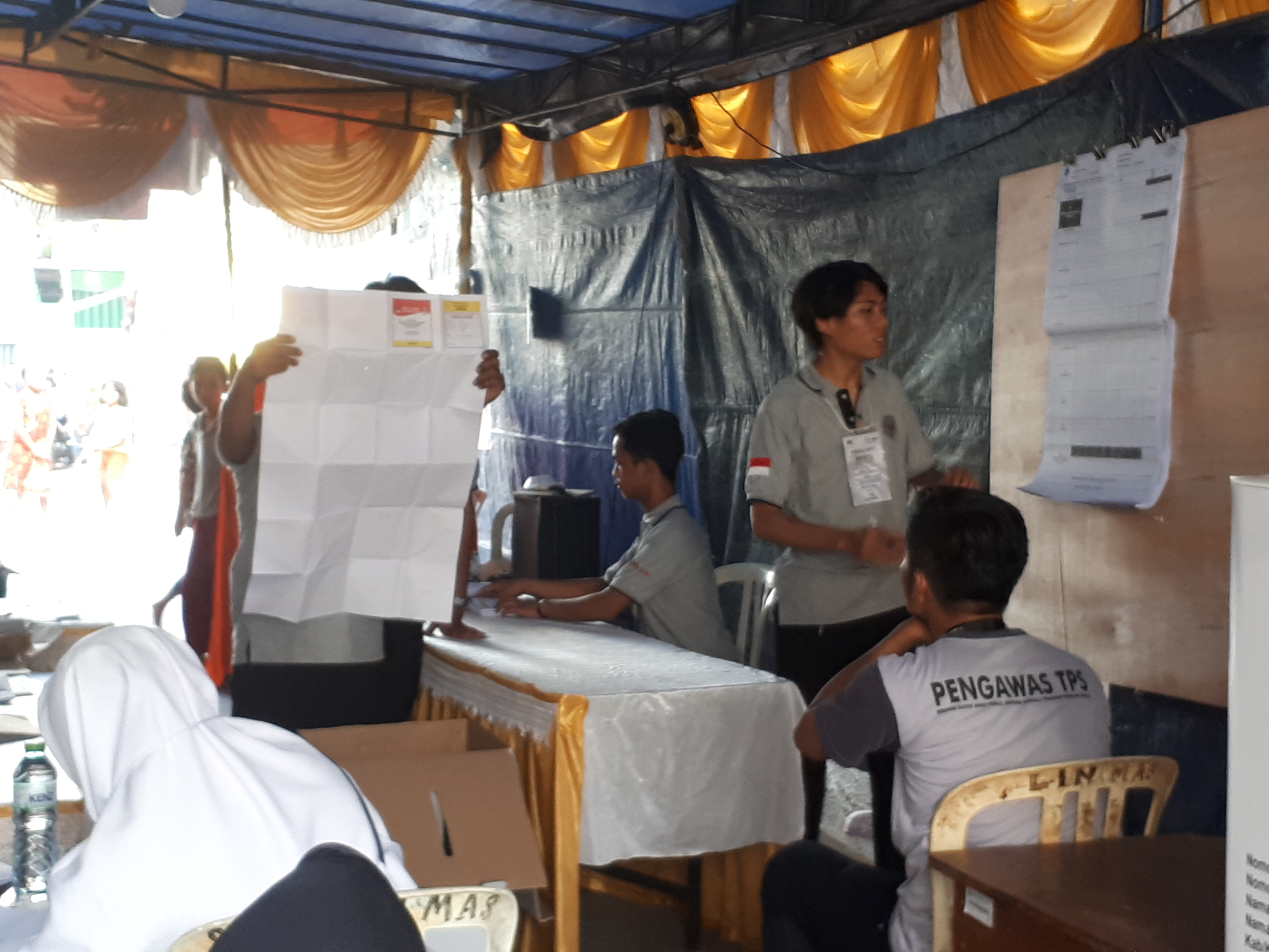 A group of functionaries from the Election Commision of Indonesia and several bystanders from various organizations and parties witnessing the vote count of the TPS 99 of North Jakarta.